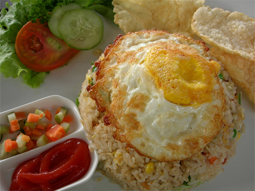 Nasi Goreng Ikan Asin, Bandung